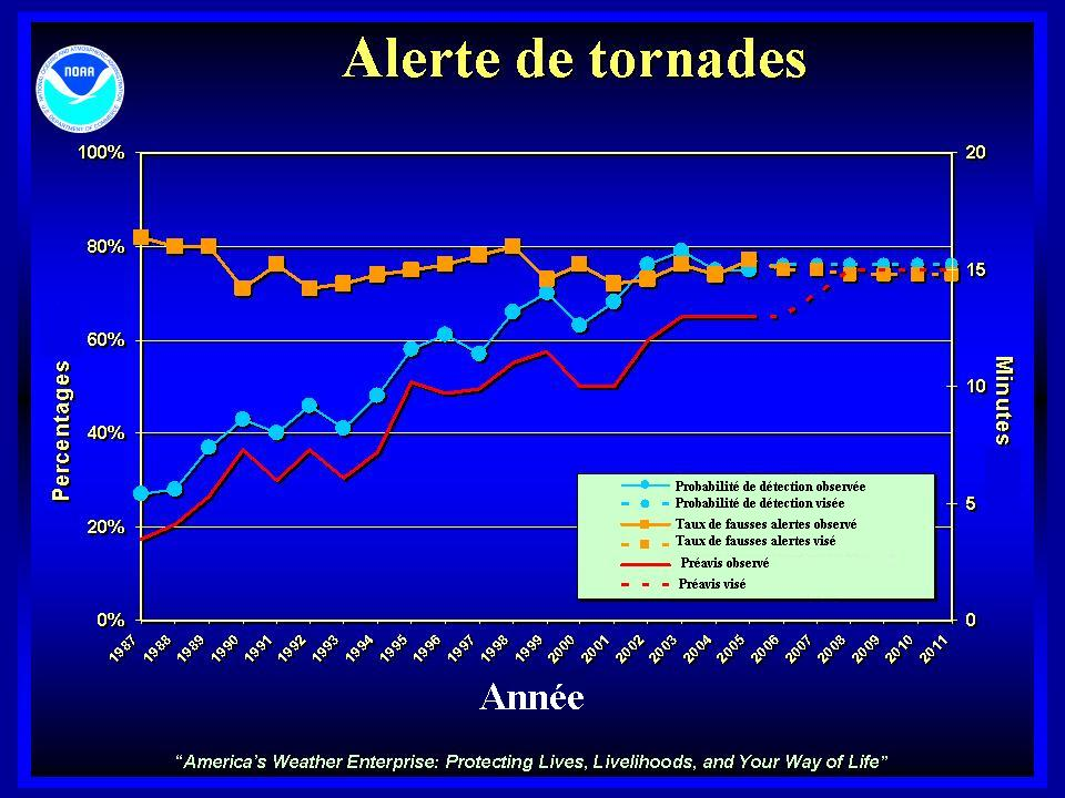 French version of graphics showing the accuracy, lead time and false alarm ratio of Tornado warnings in USA from 1987 to 2005 with extrapolated aim up to 2011.